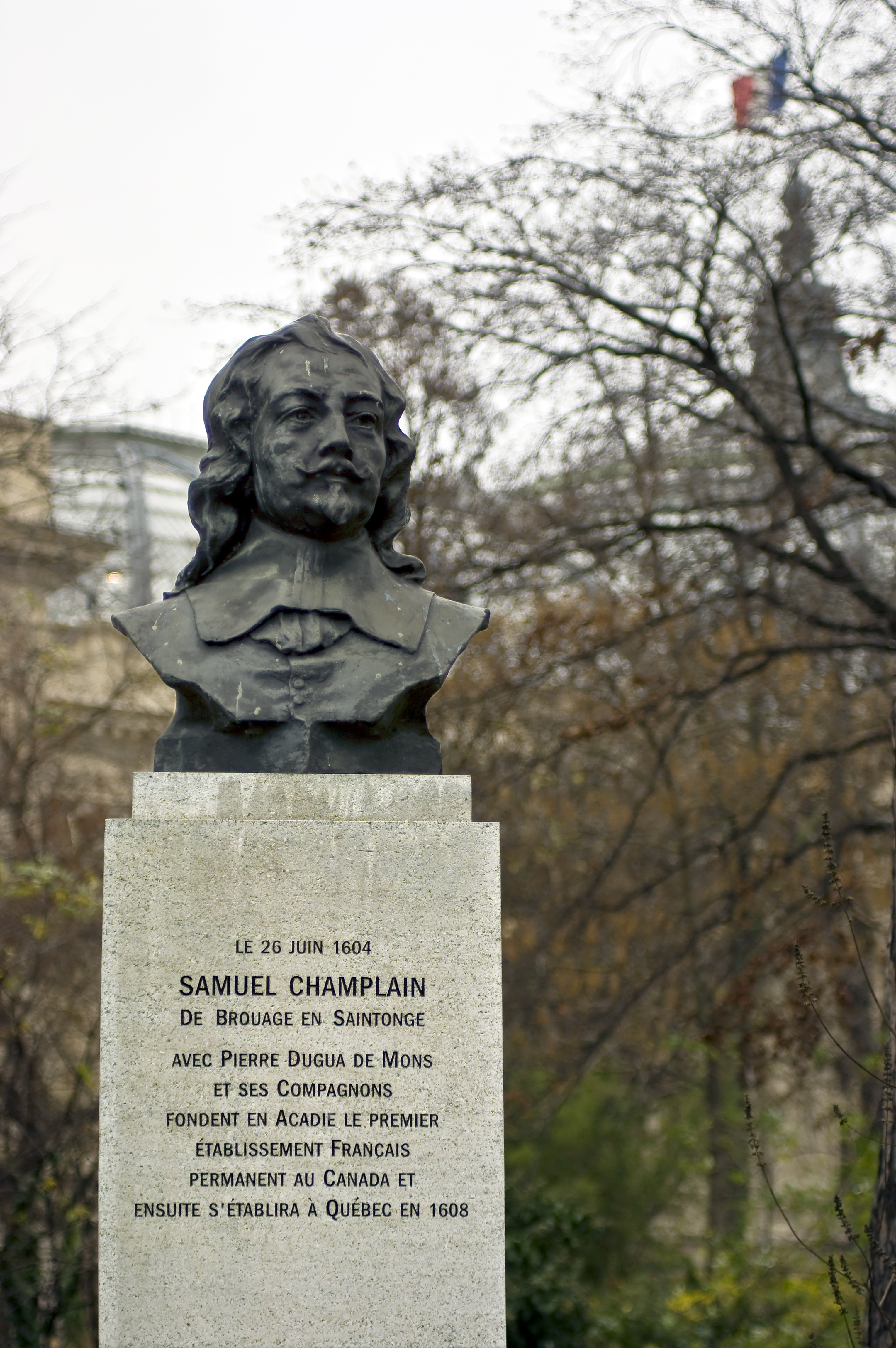 Alfred Laliberté (Quebec sculptor 1878-1953): Bust of Samuel Champlain, bronze, Paris, eighth arrondissement, Cours la Reine, avenue Franklin Roosevelt. This is one of two replicas made from a mold (1930) of Laliberté, the other is in Brouage where Champlain was born at the Maison Champlain.